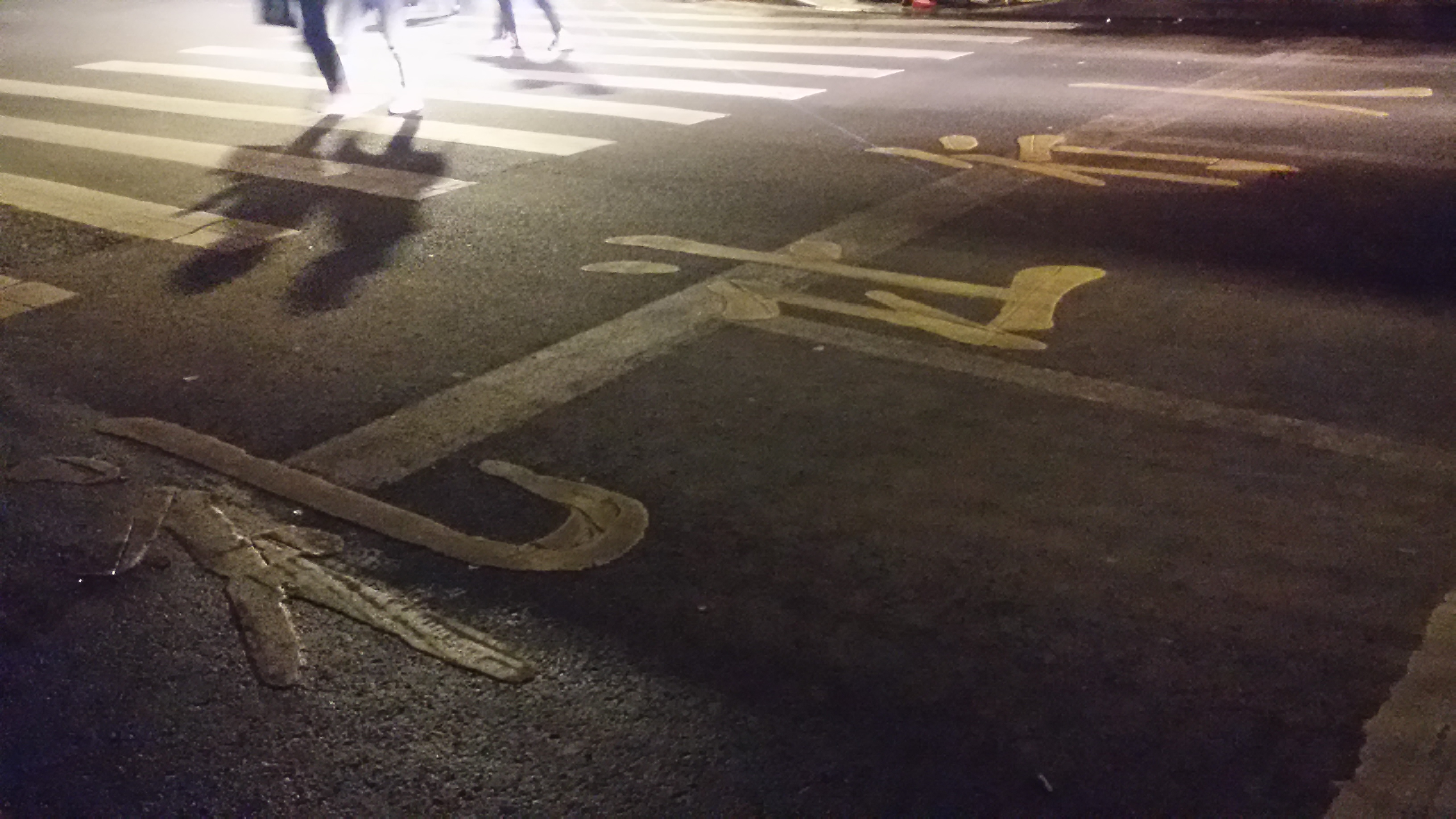 Written for "Yield to pedestrians" on a crossing in Guangzhou.